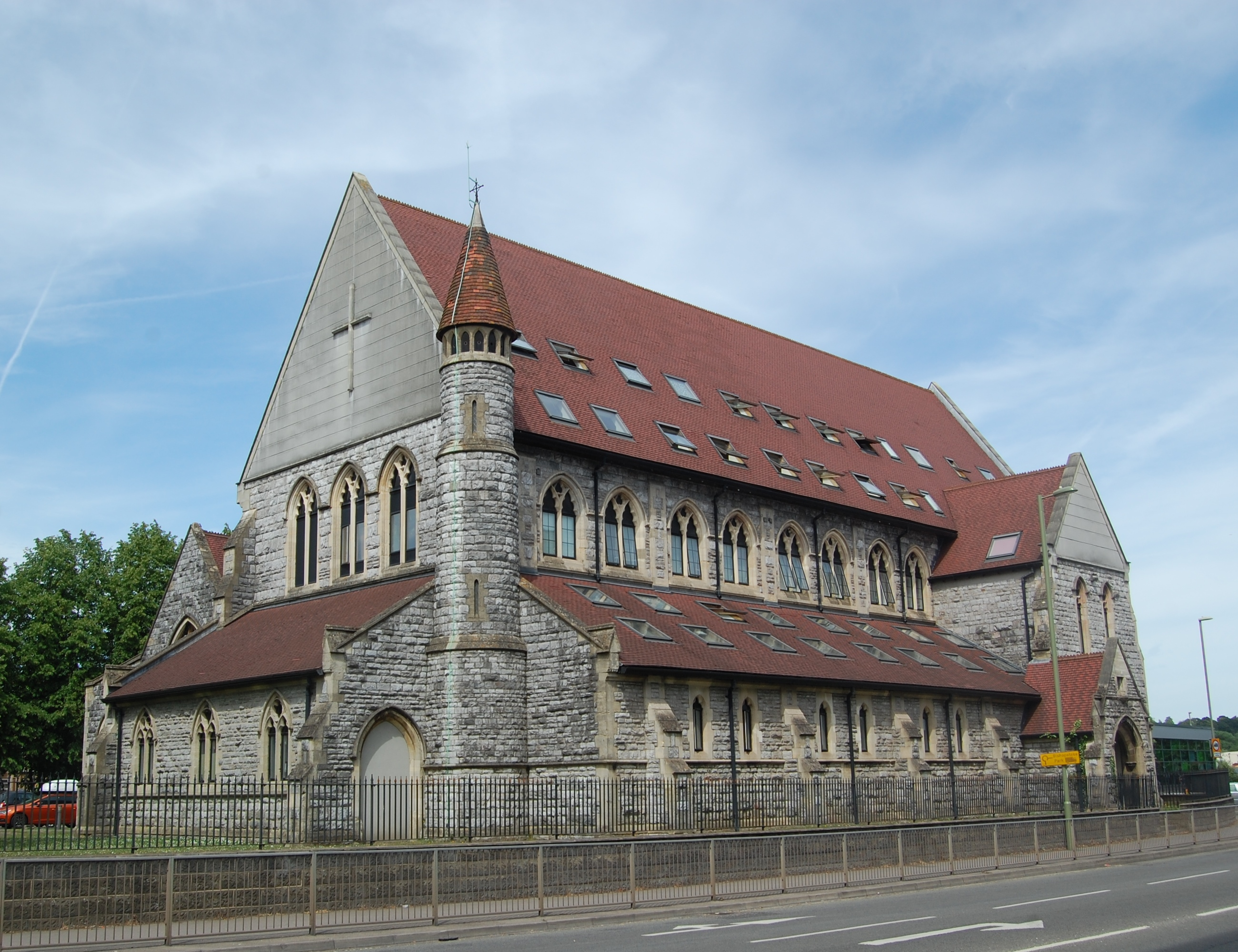 Former Church of the Resurrection, Romsey Road, Eastleigh, Borough of Eastleigh, Hampshire, England. The former Anglican parish church of Eastleigh. Now converted into flats.